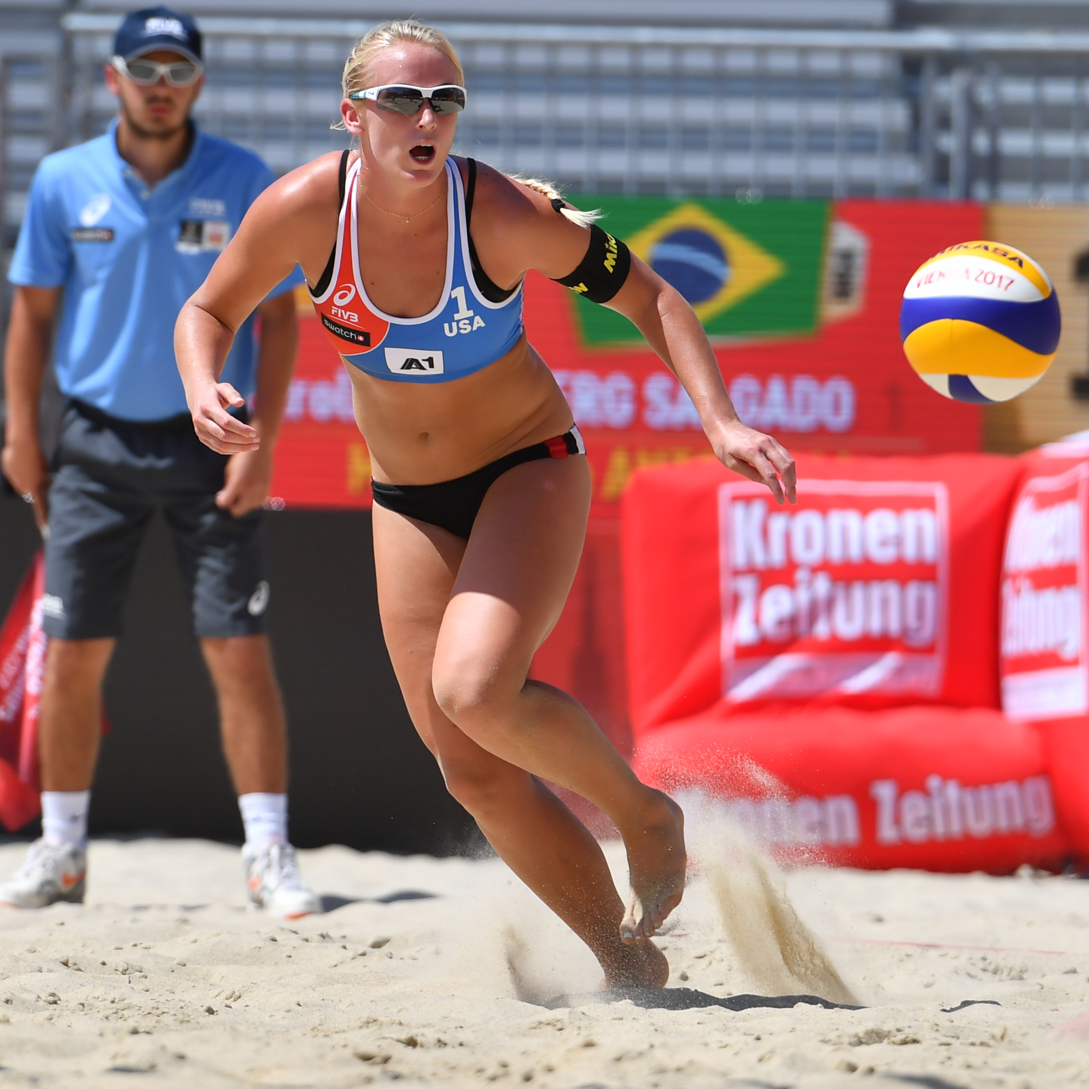 31/7/17, Vienna, Austria, sports, beach volleyball, FIVB Beach Volleyball World Championships.